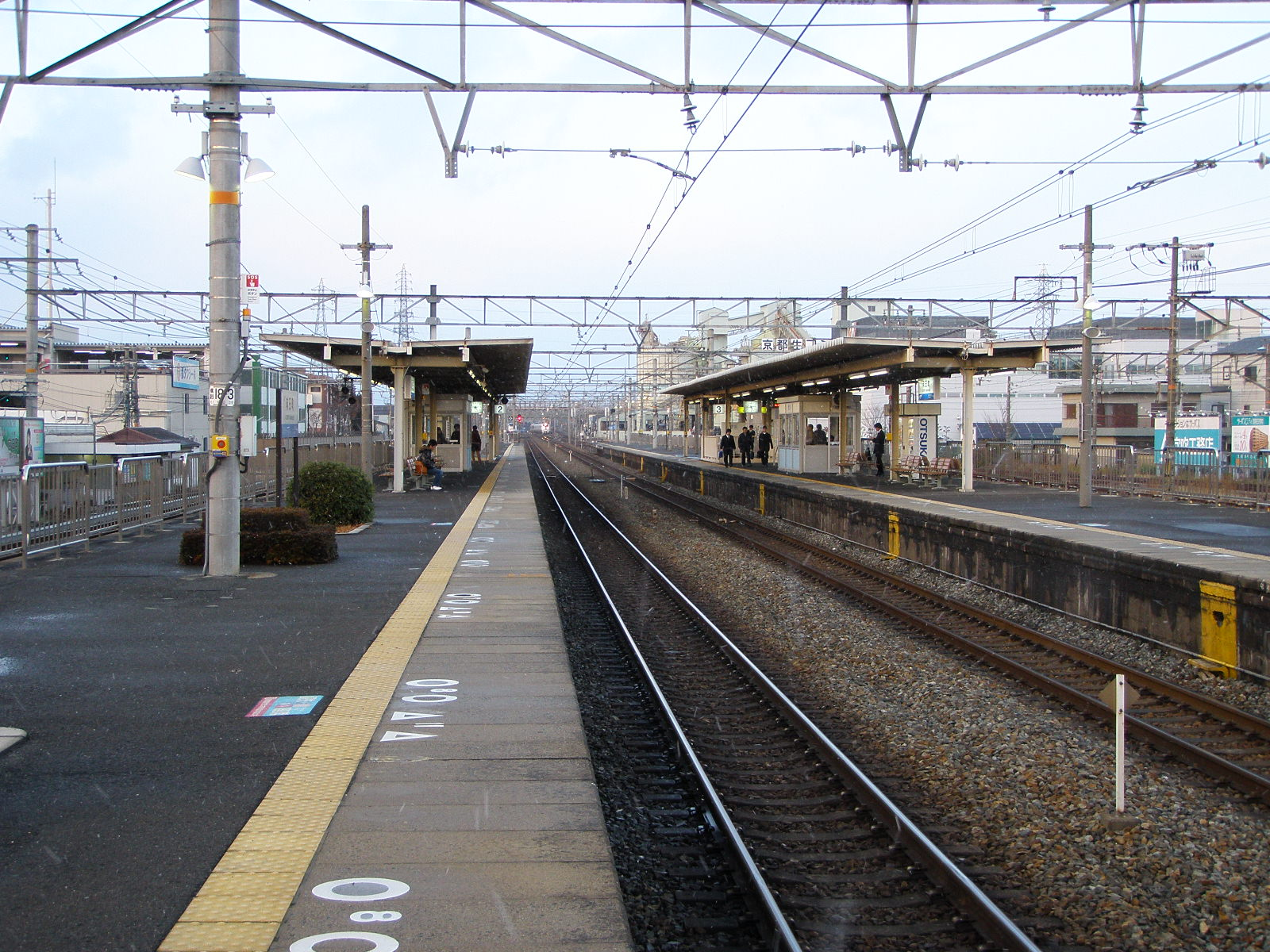 West Japan Railway Tōkaidō Main Line（JR Kyōto Line） Mukōmachi Station Platform